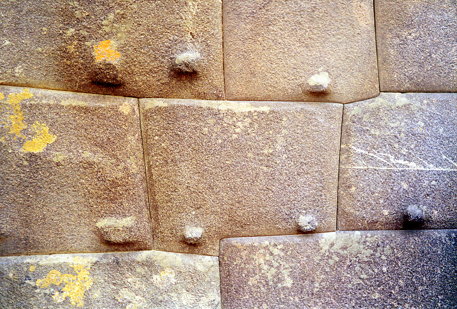 Ollantaytambo, Peru. The photo was taken in 2002 by Håkan Svensson (Xauxa).